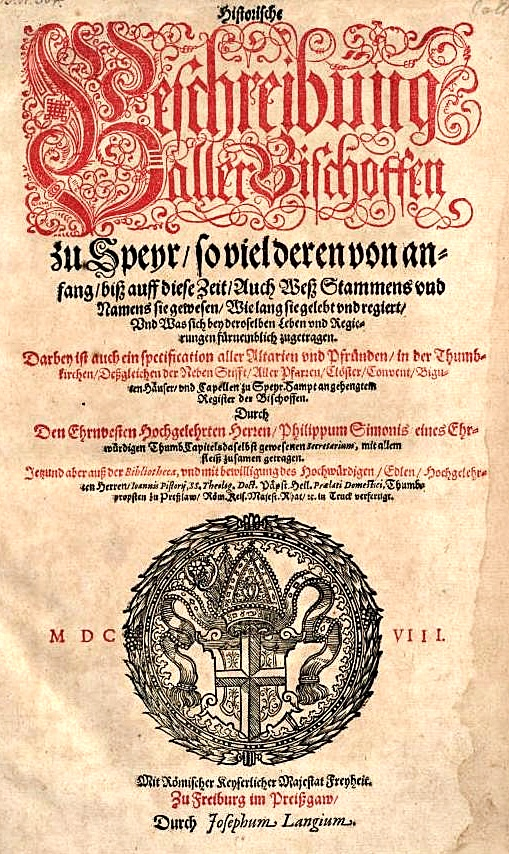 Speyerer Bischofschronik des Philipp Simonis, 1608